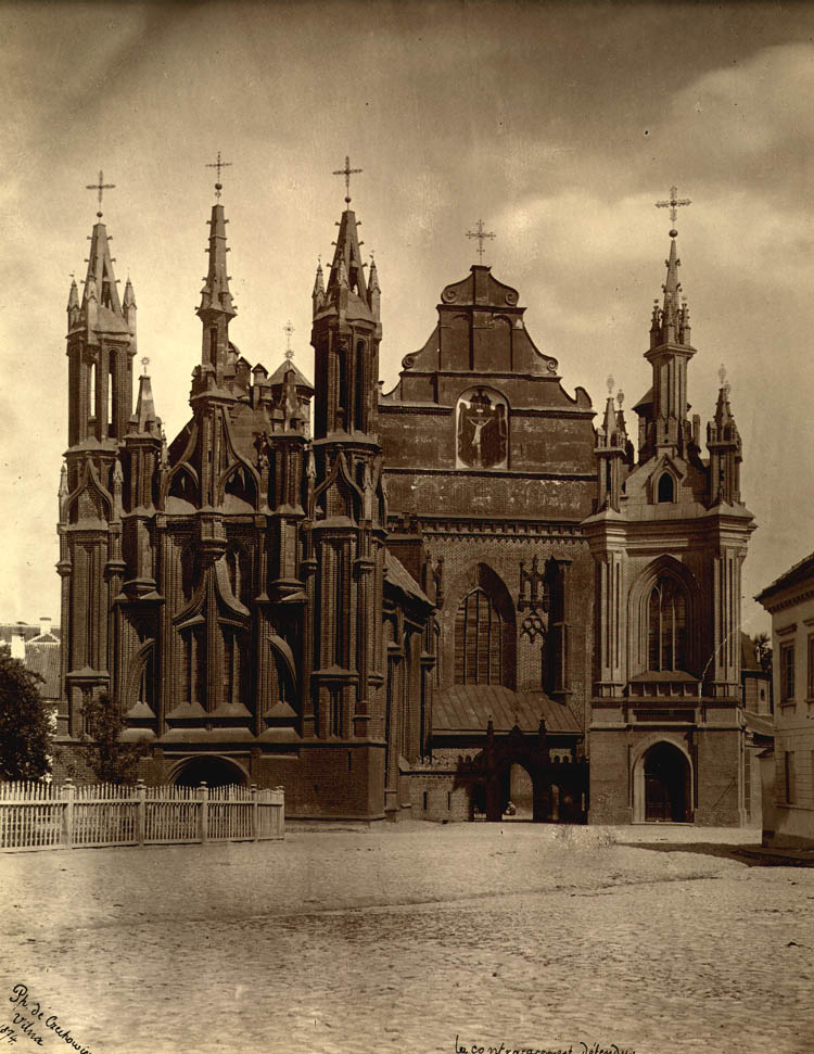 Lithuanian capital city Vilnius. St. Anne's Church